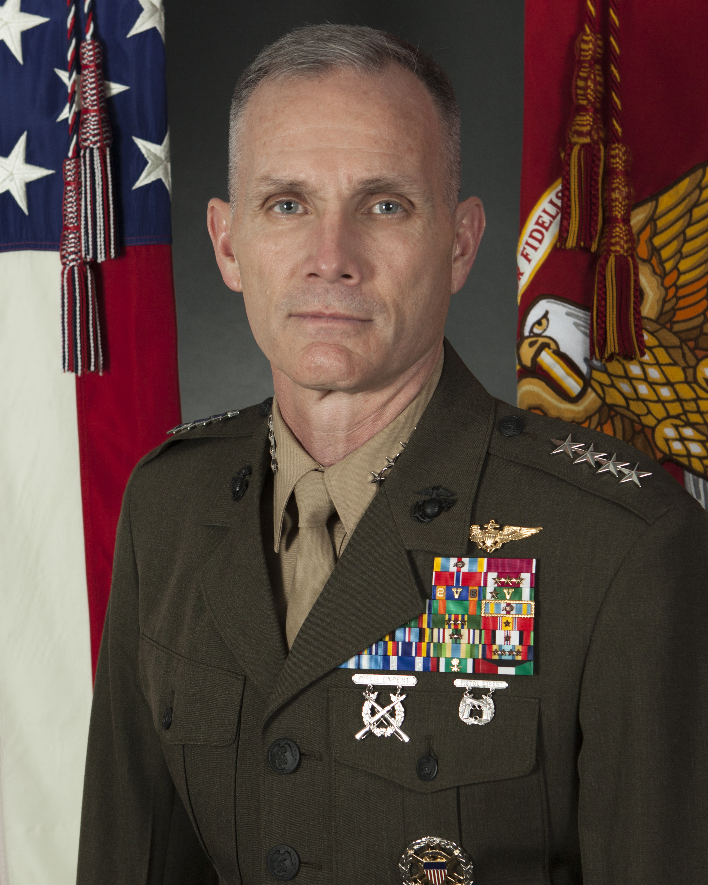 Official Photo of the Assistant Commandant of the Marine Corps Gen. Gary L. Thomas. (U.S. Marine Corps photo by Sgt. Hailey D. Clay)